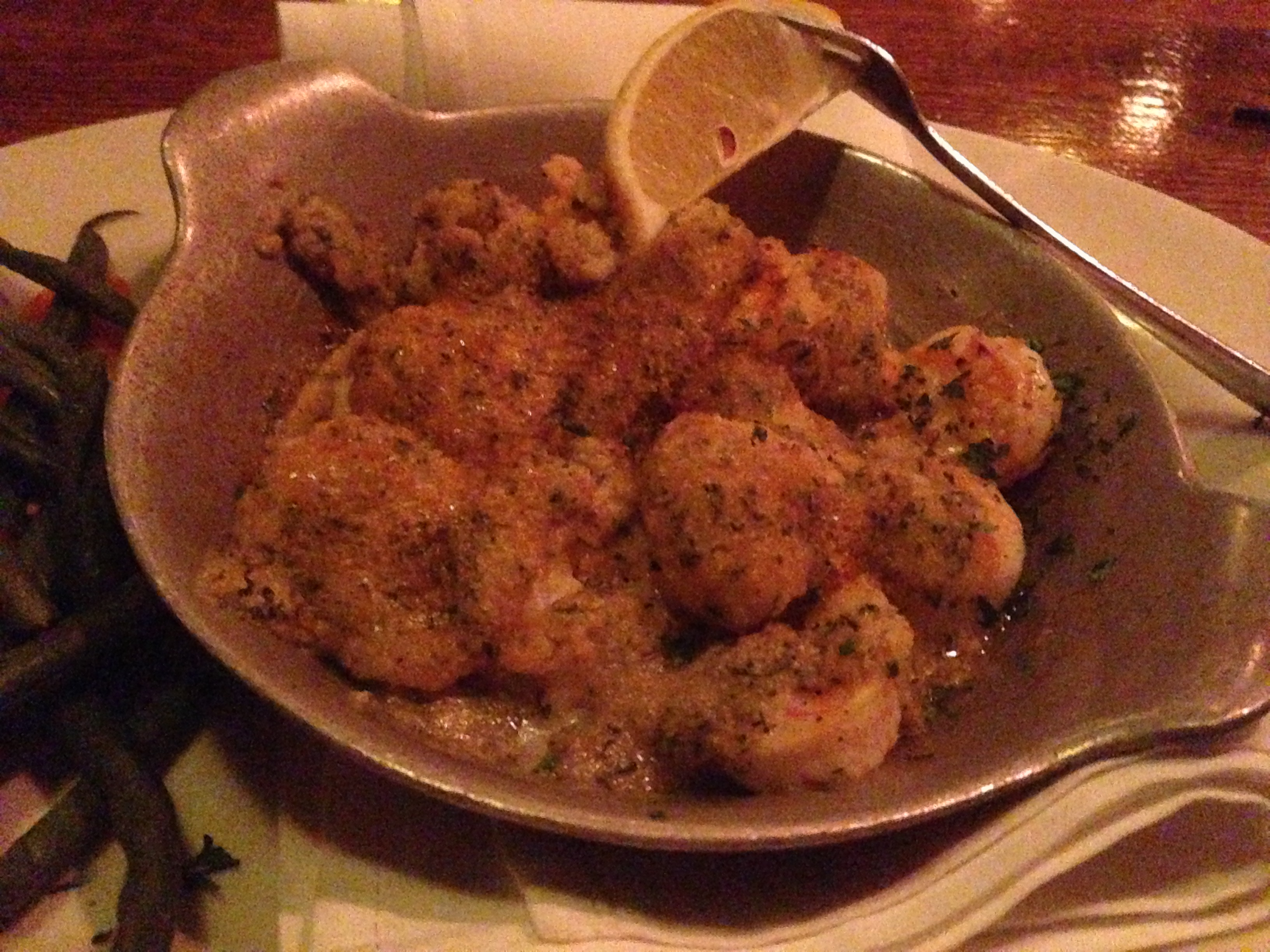 Shrimp DeJonghe at Johnny's Kitchen & Tap in Glenview, Illinois.